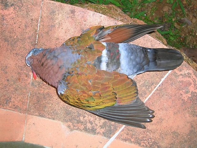 Bronzed dove (Chalcophaps indica) killed on crashing into glass window pane in Wayanad, Kerala